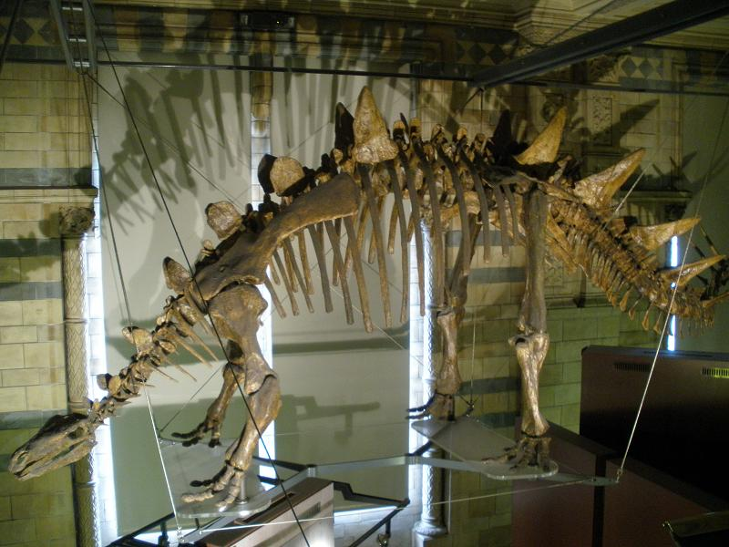 Tuojiangosaurus multispinus reconstruction at the Natural History Museum in London, England.